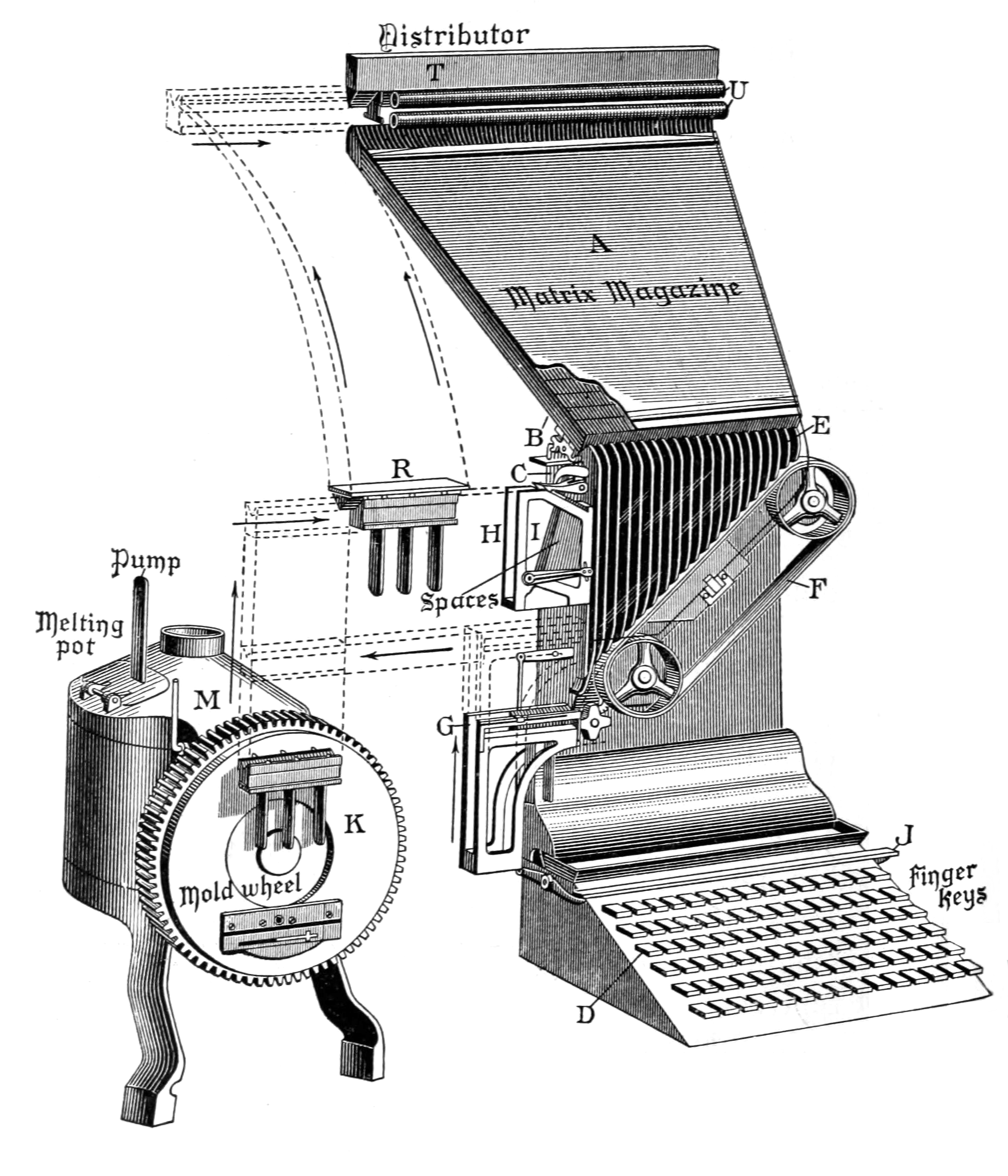 Diagram of the overall workings of a Linotype machine used in typesetting, ca. 1904 (digitally cleaned up by uploader)